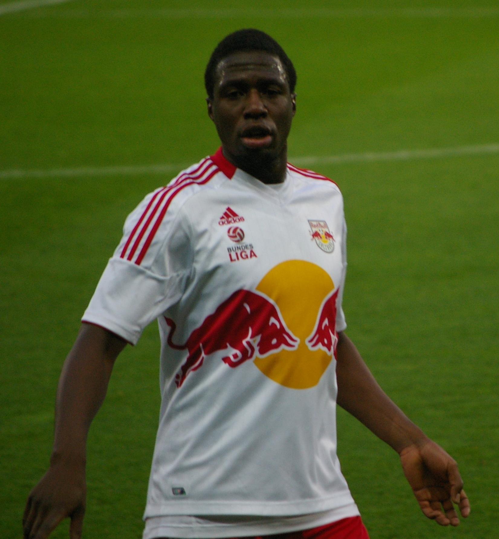 defender Rb Salzburg